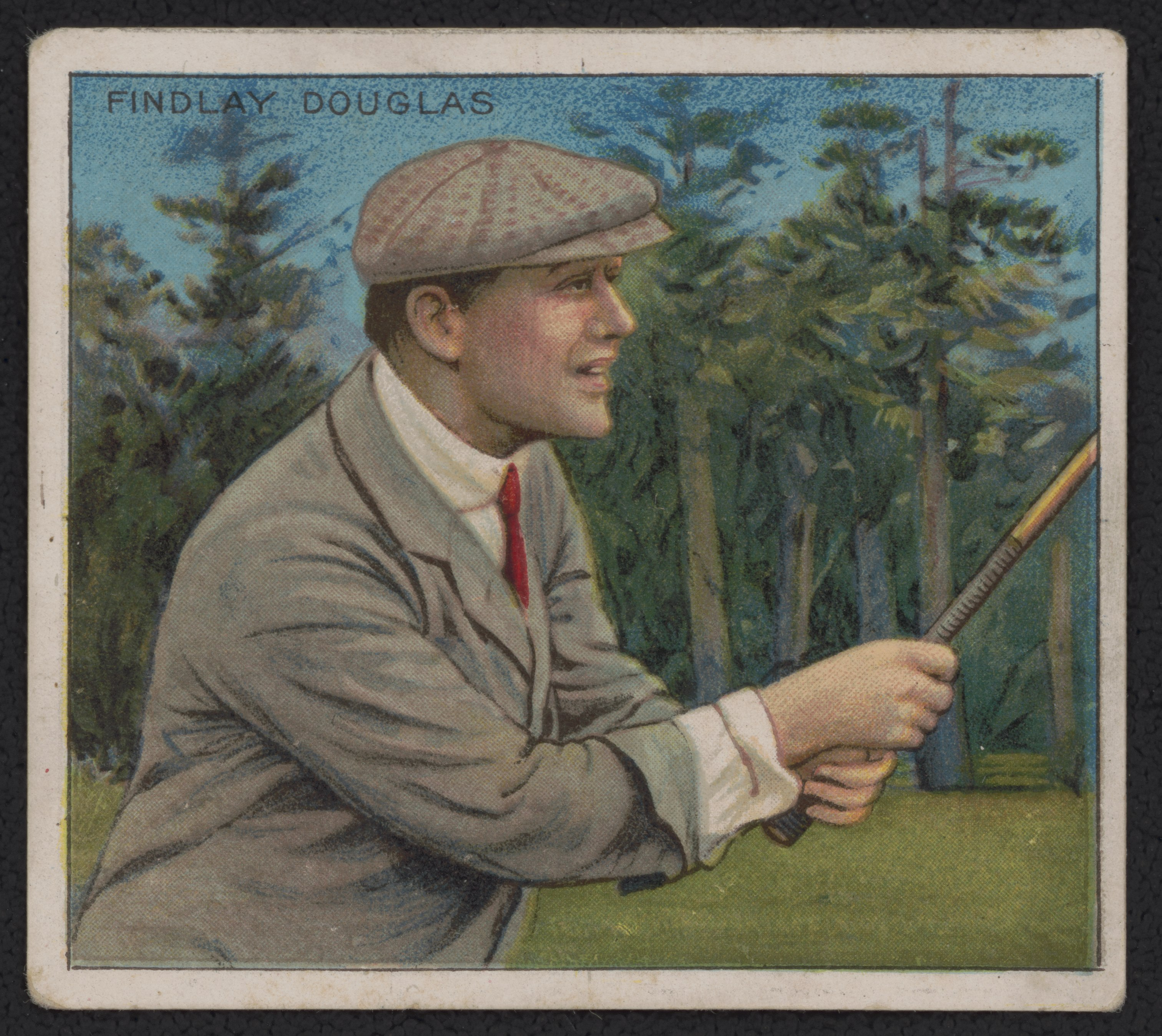 Title: Findlay Douglas Abstract/medium: 1 print : chromolithograph ; 64 x 73 mm.